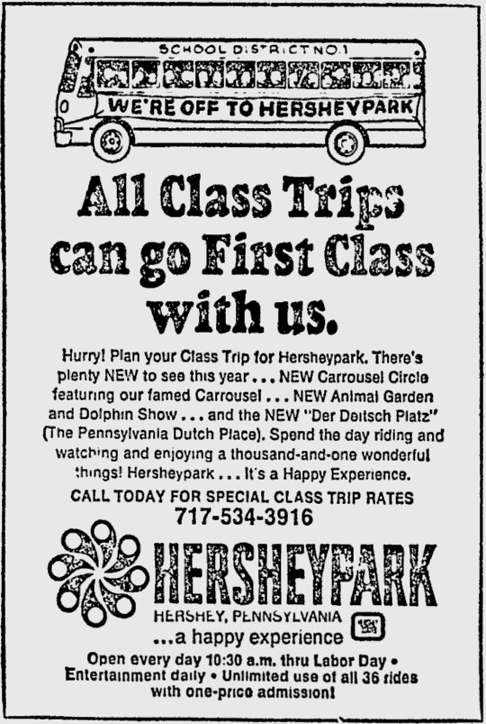 This is an advertisment for Hersheypark, in the Pittsburgh Press from April 16, 1972.